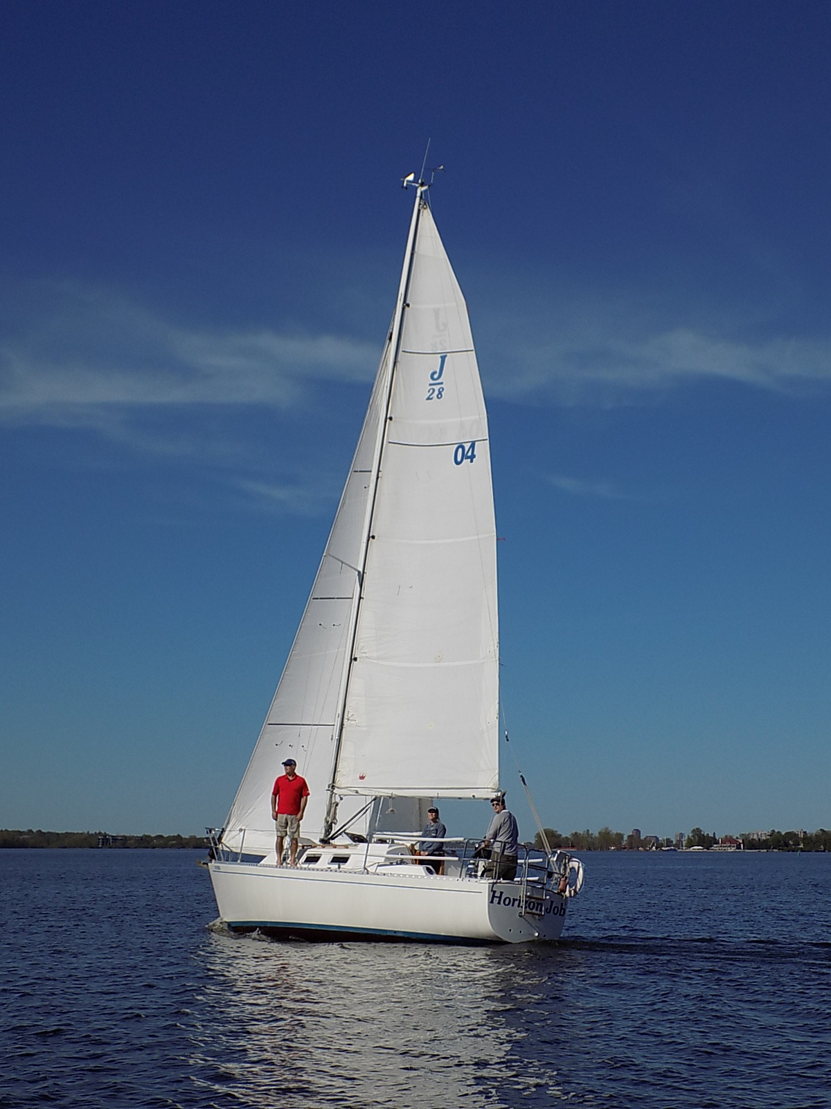 A J/28 sailboat named Horizon Job.